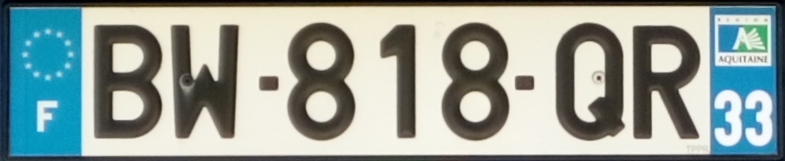 A license plate of Gironde,France